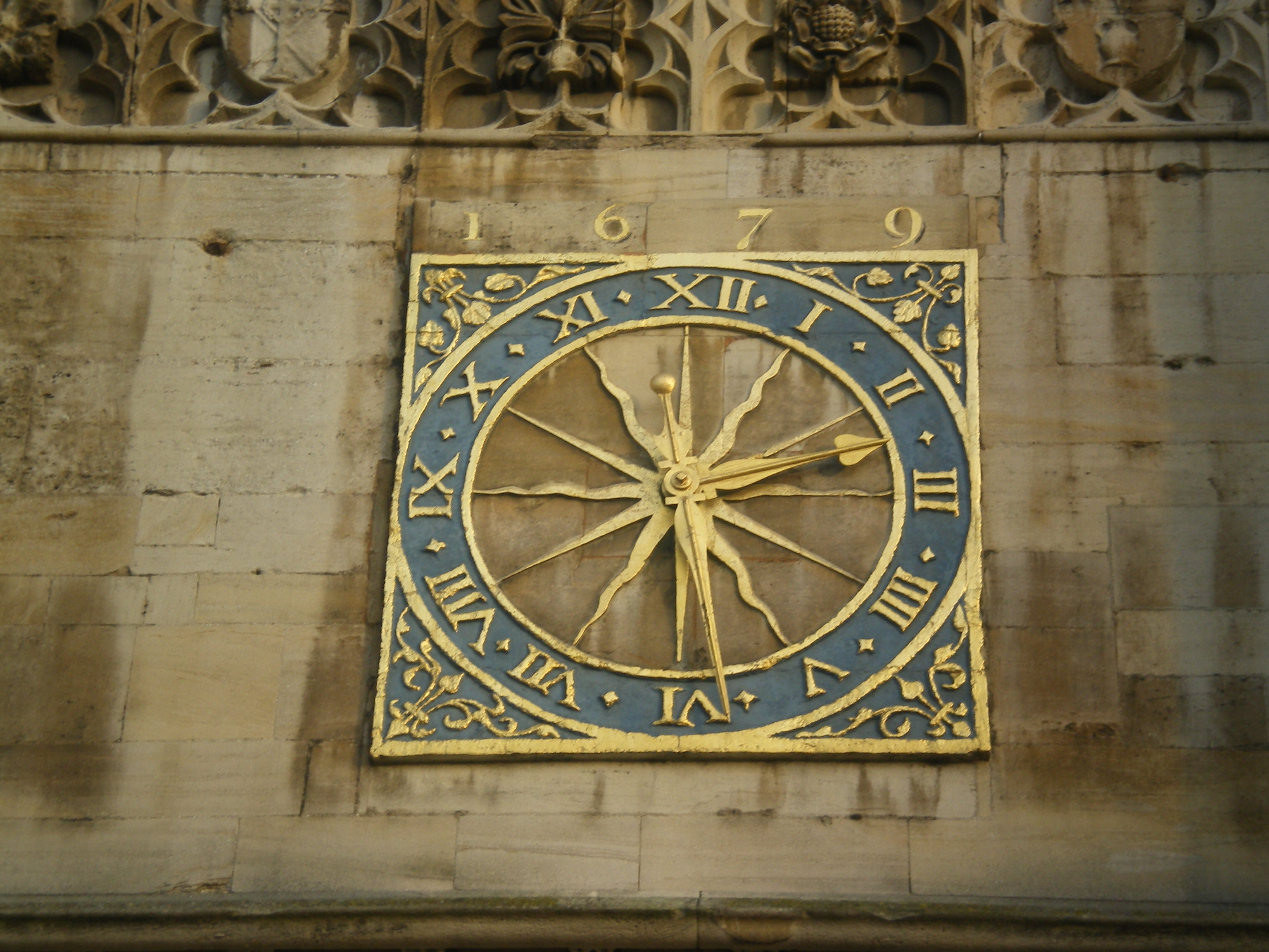 Cambridge University Clock on the tower of Great St Mary's